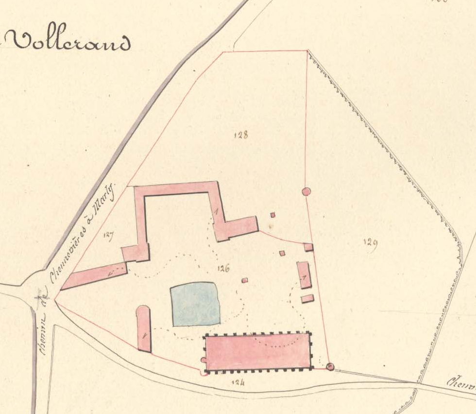 Plan of the Vaulerent Barn. Cadastral map of Villeron, former Seine-et-Oise, now Val-d'Oise, France